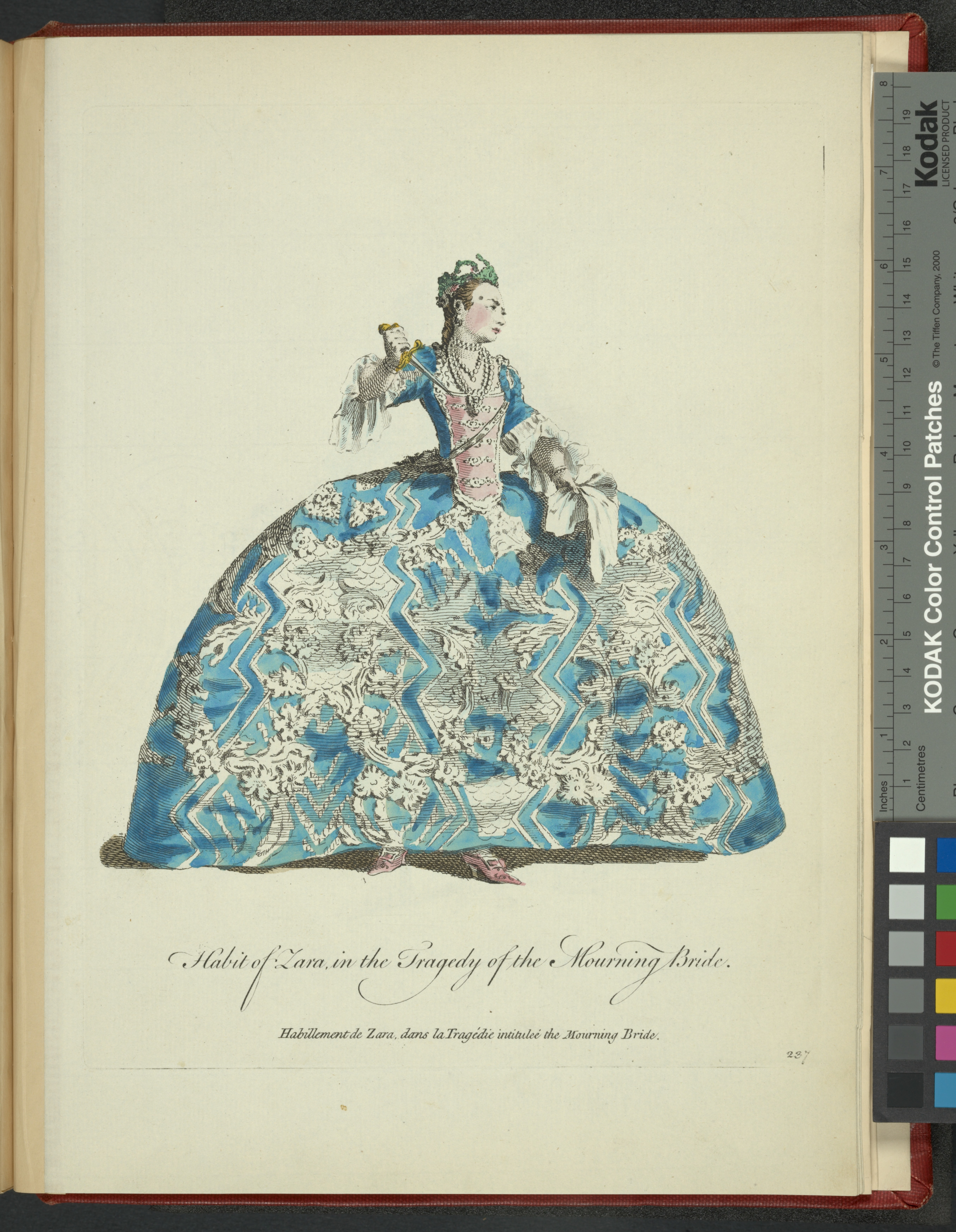 Habit of Zara in the Tragedy of the Mourning Bride. Habillement de Zara dans la Tragédie inituleé the Mourning Bride.